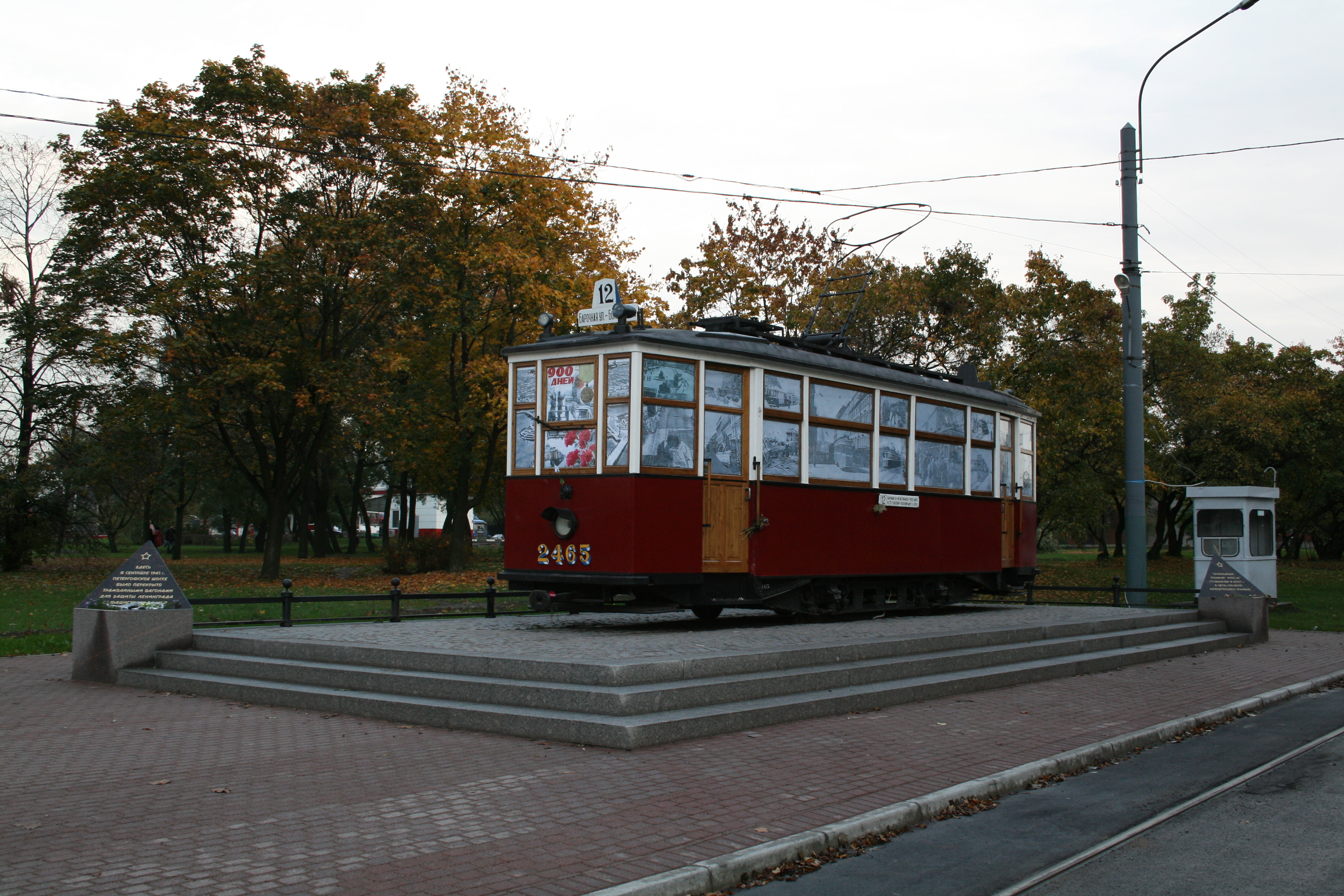 MS type tram